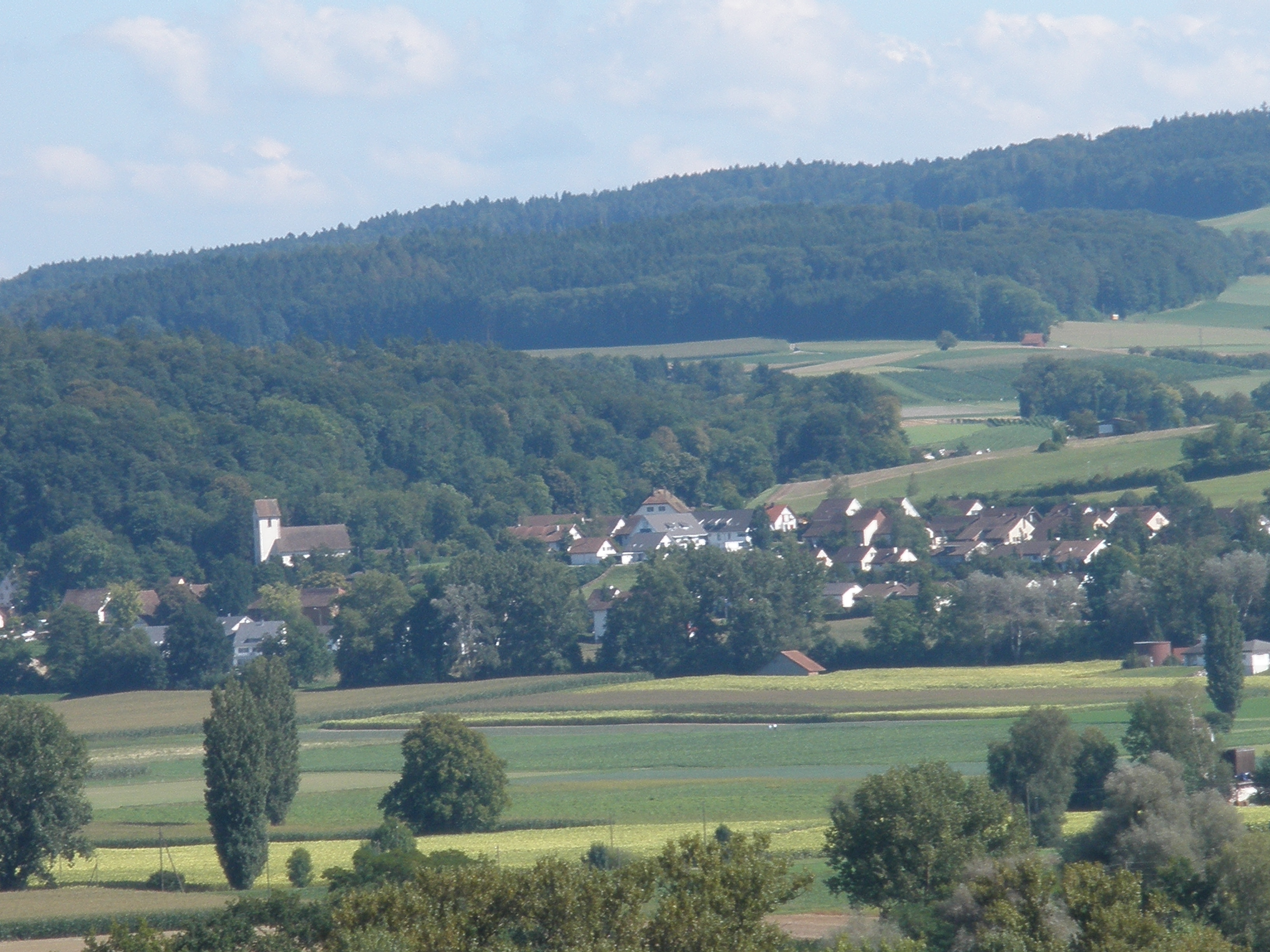 Berg am Irchel (village in the Canton of Zurich, Switzerland)